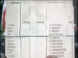 A photography of the 35 French Resistance Martyrs' marble wall in the Bois de Boulogne, Paris, France. The 35 were assassinated by the Germans on August 16 1944 during the Liberation of Paris. May 16 2007.